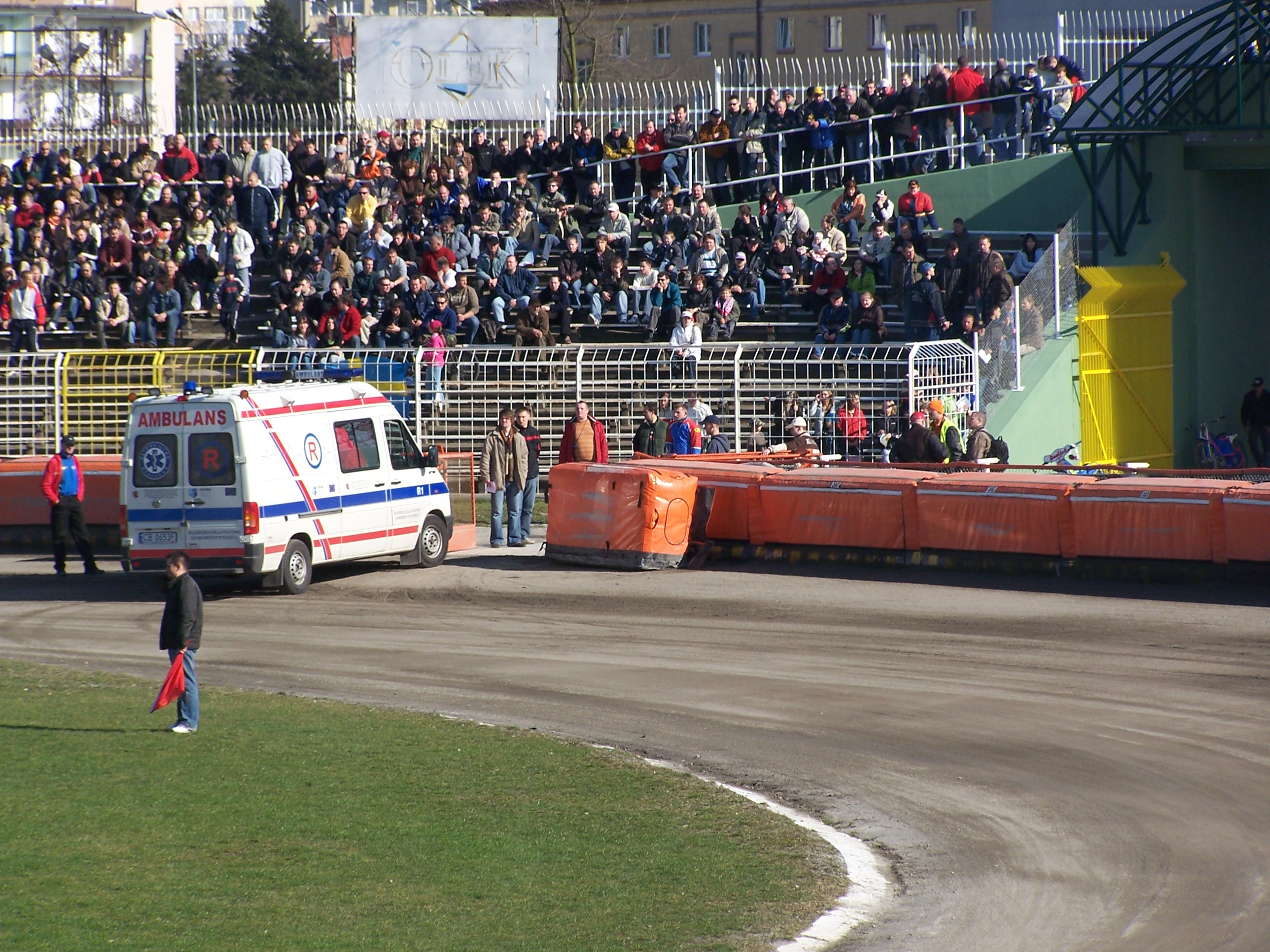 Ambulance on speedway track